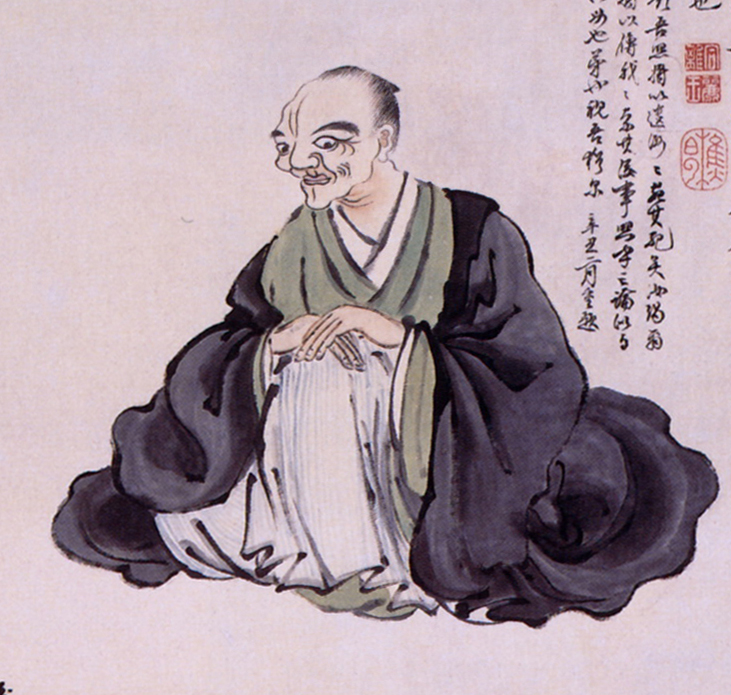 Portrait of Hosoai Hansai,Kuwayama Gyokushu Works